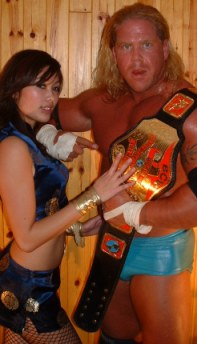 A-1 and Jade Chung in Belleville, Michigan. December 12, 2004.